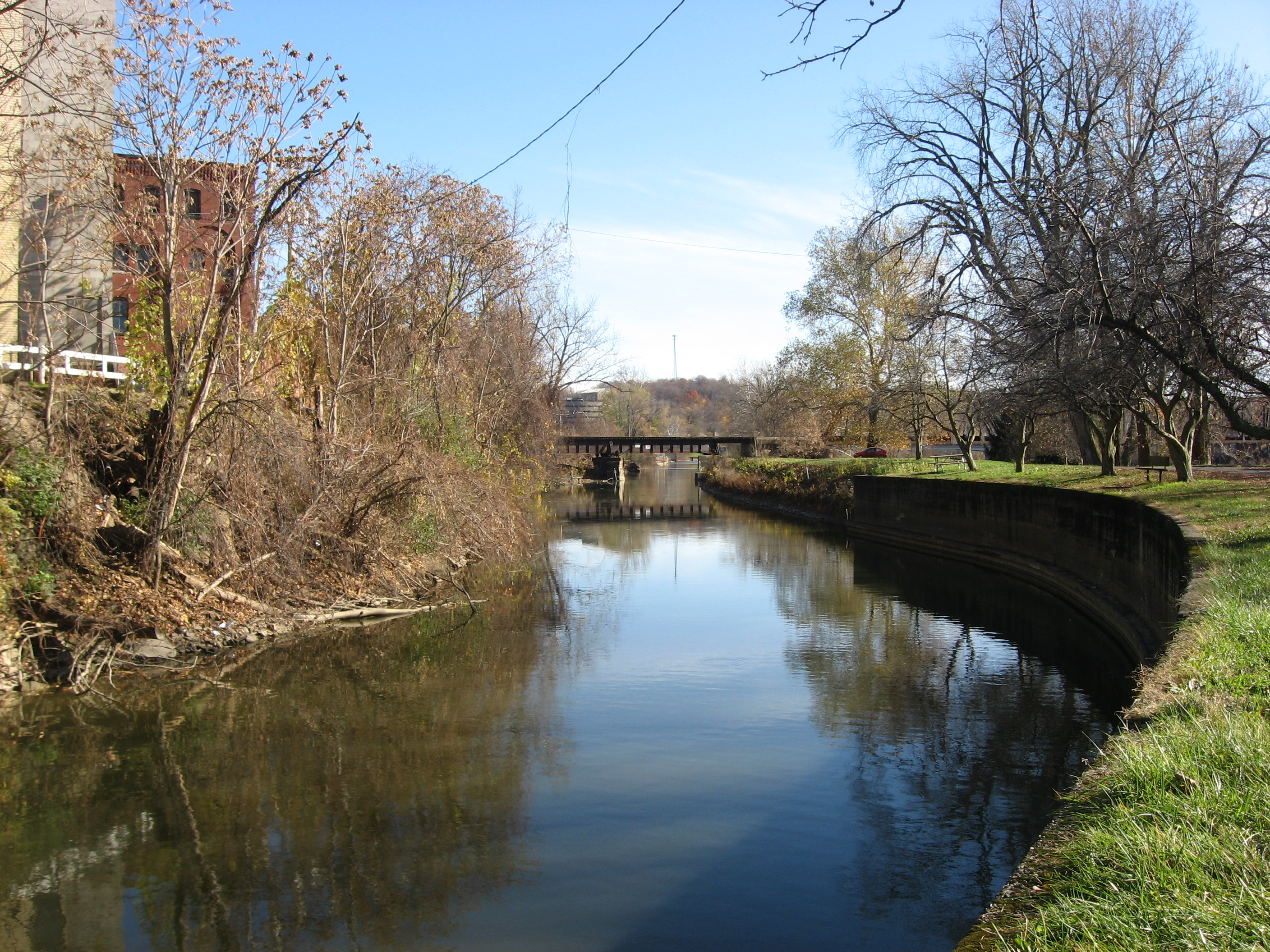 Looking downstream along the Muskingum River Canal at Zanesville, Ohio, United States. Constructed in 1841, the Zanesville waterfront portion of the canal is listed on the National Register of Historic Places. Photo is taken from the former canal towpath — now a footpath — on the riverside bank of the canal.